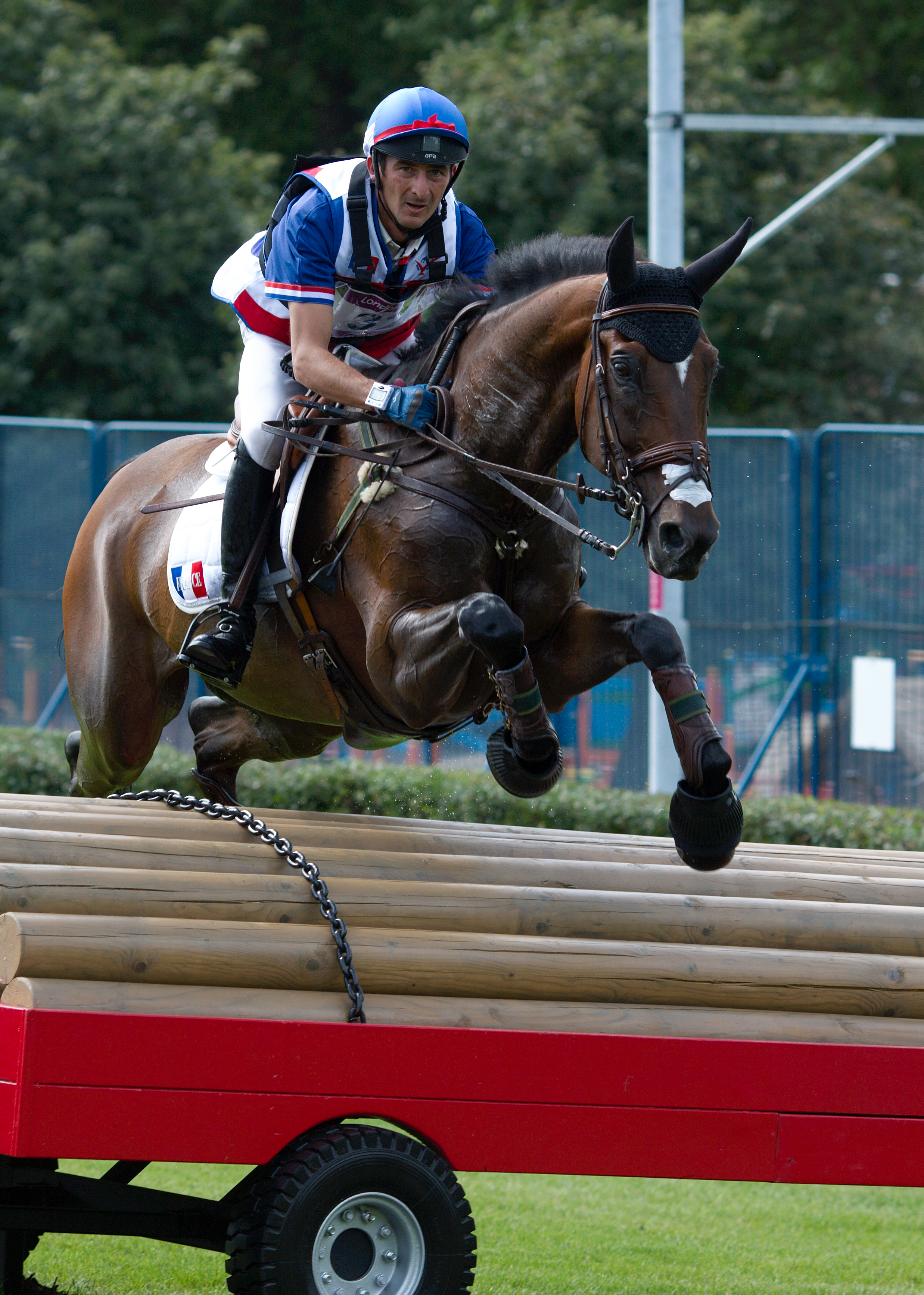 Lionel Guyon and Nemetis De Lalou, competing for FRA, at fence 19, during the cross-country phase of the Eventing during the 2012 Olympic Games in Greenwich Park, London.